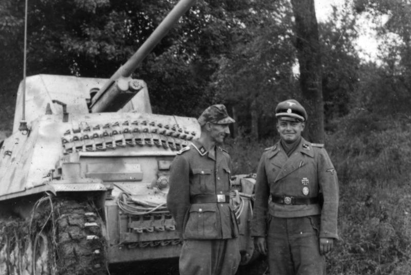 Information added by Wikimedia users.A Panzer Selbstfahrlafette 1 fǜr 7.6cm PaK 36(r) auf Fahrgestell Panzerkampfwagen II Ausf. D1 und D2 (Sd.Kfz.132), (giving the full German designation), of the Wiking Waffen SS division in the Caucasus region of the USSR. (colloquially known as Marder II)